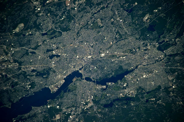 Astronaut Photography of Providence Rhode Island taken from the International Space Station (ISS)